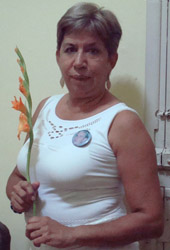 Julia Núñez, Ladie in White, the wife of de cuban political prisoner Adolfo Fernández Saínz.